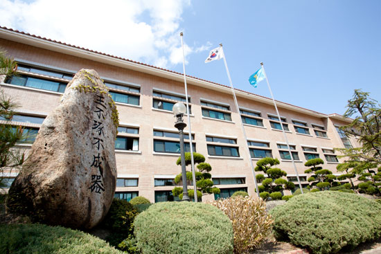 제철고 이미지